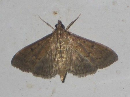 Herpetogramma licarsisalis (Walker, 1859) Wingspan 26mm (ex: Psara licarsisalis)